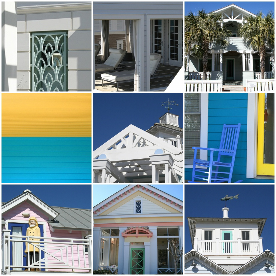 Composition of pictures showing architectural features from Seaside, Florida